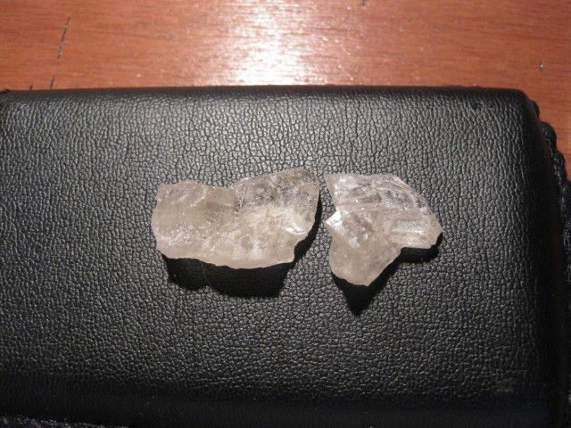 MDMA crystal, tested in Holland: 84,1% 3,4-methylenedioxymethamphetamine. This is MDMA in most pure form